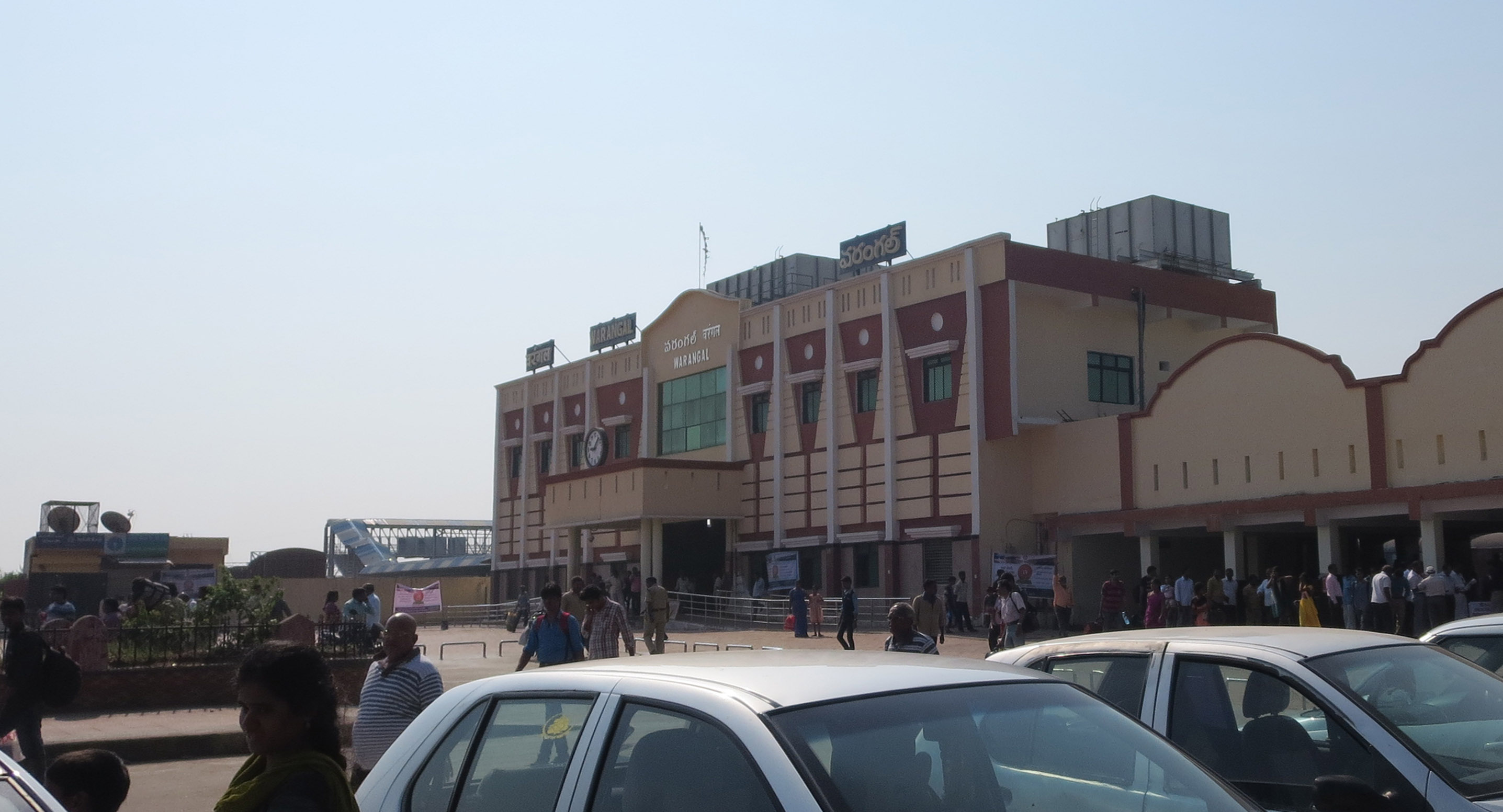 Main entrance of Warangal Railway Station